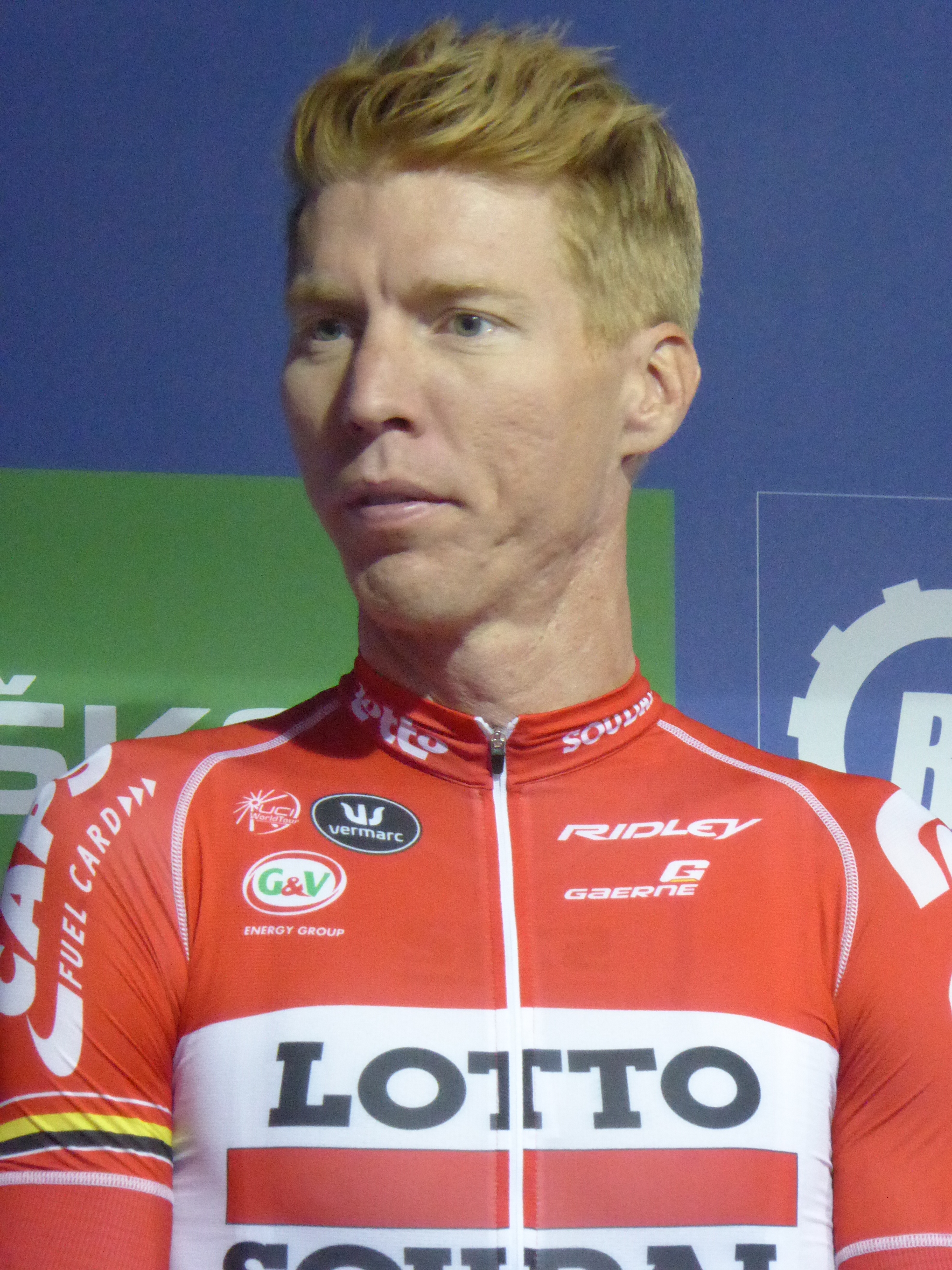 Marcel Sieberg (Lotto-Soudal), pictured at the 2016 Tour of Britain team presentation in Glasgow on 3 September 2016.